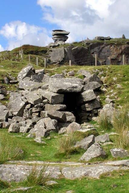 Daniel Gumb's cave, near Cheesewring Quarry The dark "cave" in the centre of the photo was home to a stone cutter and mathematician called Daniel Gumb who lived the life of a hermit here until he died in 1776. Some of his geometric diagrams are chiselled into the top of the granite slab that forms the roof of this hermitage. The posts in the background are part of a fence around the Cheesewring Quarry, and up on Stowes Hill is the Cheesewring itself.